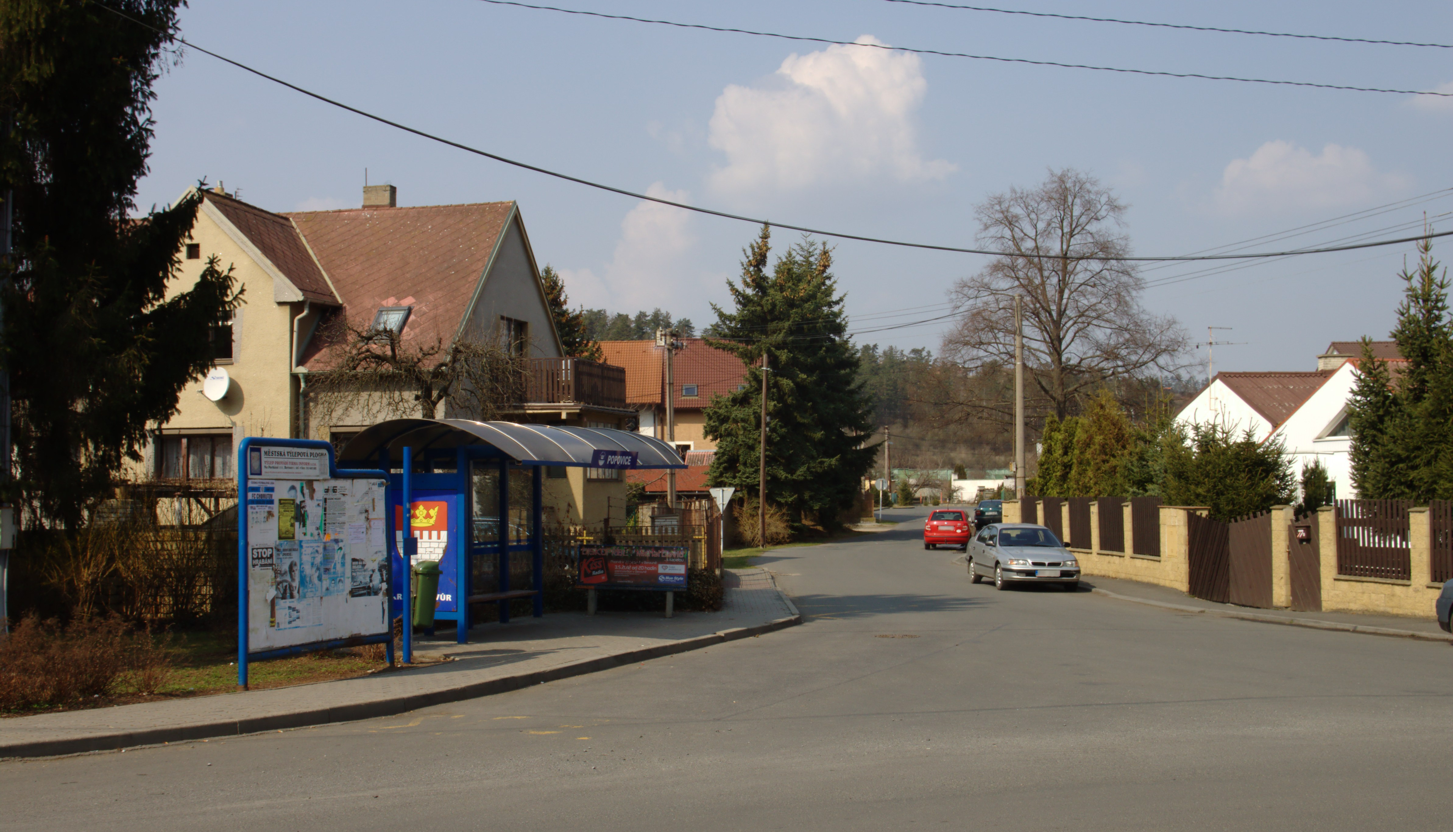 A bus stop at a crossing in the central part of Králův Dvůr-Popovice, Central Bohemian Region, CZ